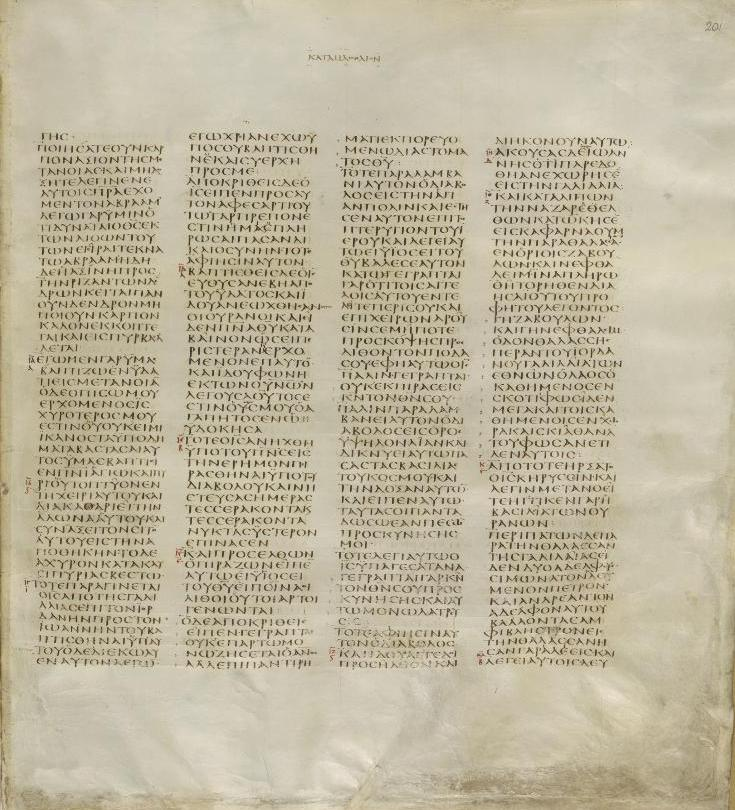 page of the codex with text of Matthew 3,7-4,19